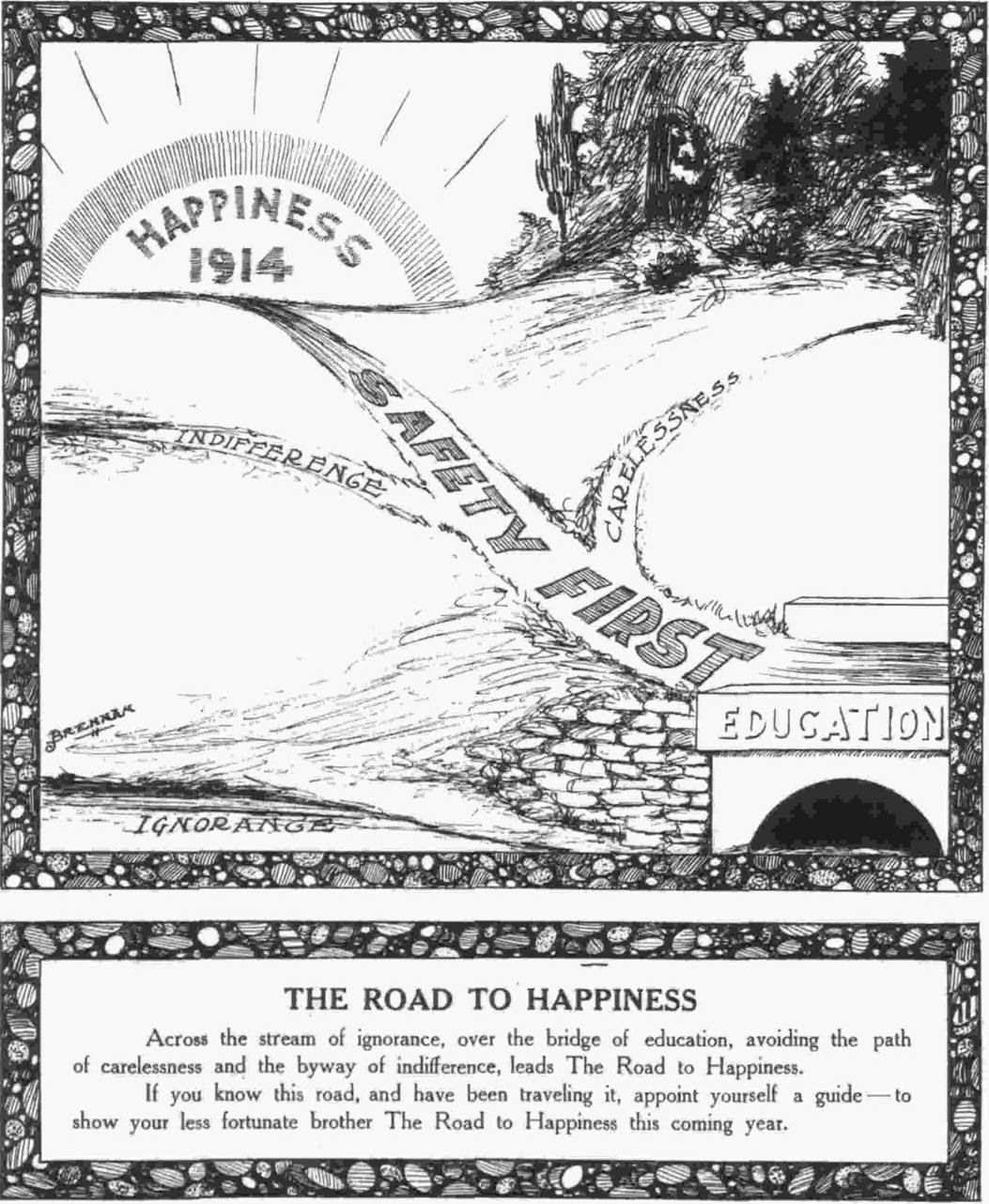 US Steel campaign in late 1913: The Road to Happiness Across the stream of ignorance, over the bridge of education, avoiding the path of carelessness and the byway of indifference, leads The Road to Happiness. If you know this road, and have been travelling it, appoint yourself a guide – to show your less fortunate brother The Road to Happiness this coming year.